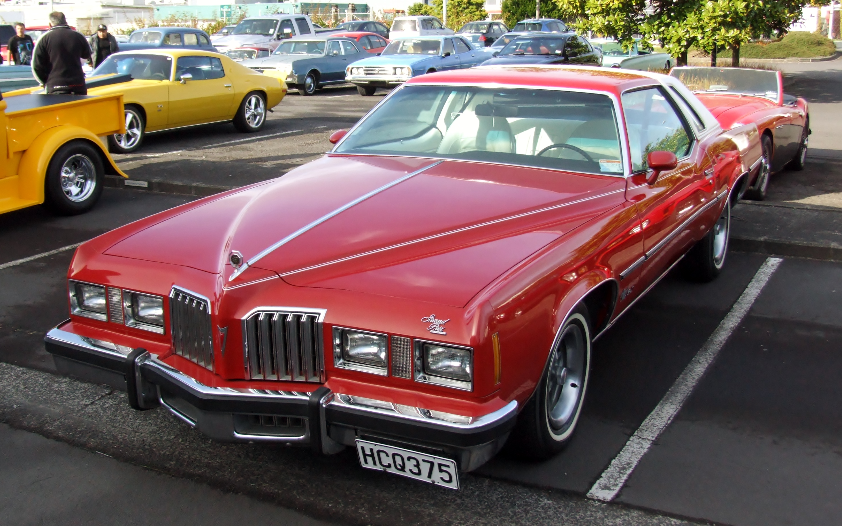 1977 Pontiac Grand Prix